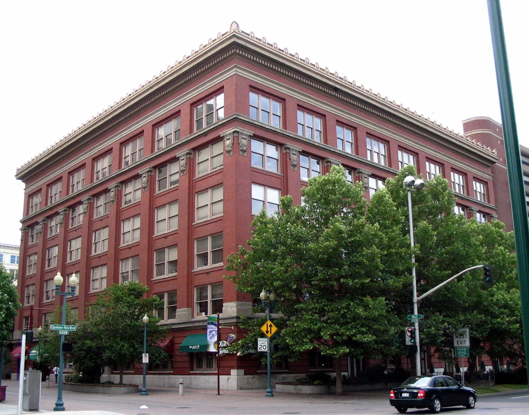 This is a picture of Spokane's old City Hall. When Spokane's earlier city hall, built in 1890, was determined to be directly in the way of a new Railroad viaduct, they commissioned architect Julius Zittel to design this simple building to hold the city offices which could later be converted into a wholesale warehouse. While meant to be temporary quarters until something actually resembling a government building was built, it remained city hall for 70 years. In 1983, when Montgomery Ward vacated their downtown store c.1983, It became the new city hall and remains to this day. This building was listed on the national Register of Historic Places on February 21, 1985.